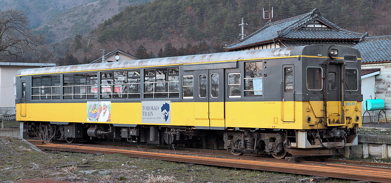 Aizu Railway Type AT-300 DMU